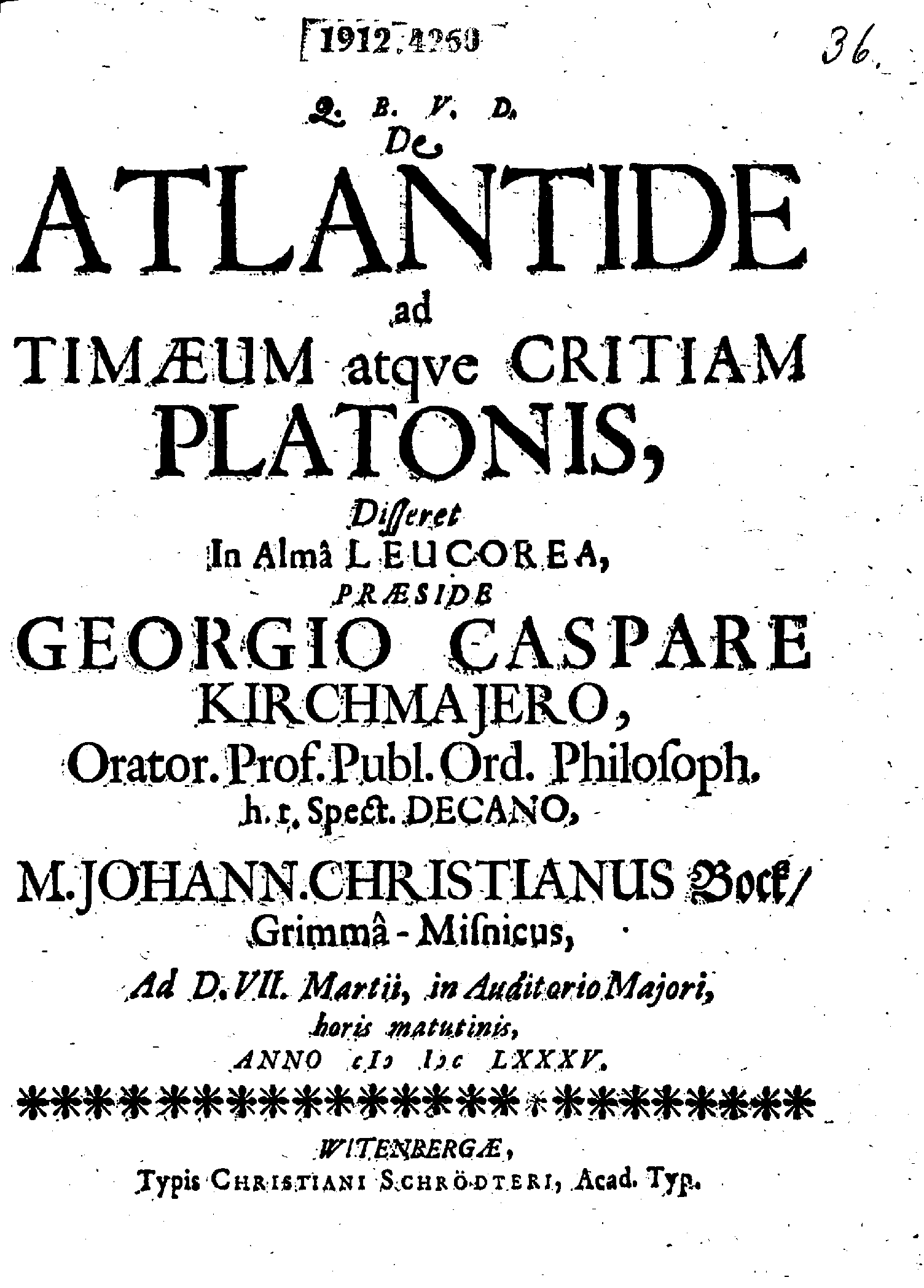 De Atlantide ad Timaeum atque Critiam Platonis, title page